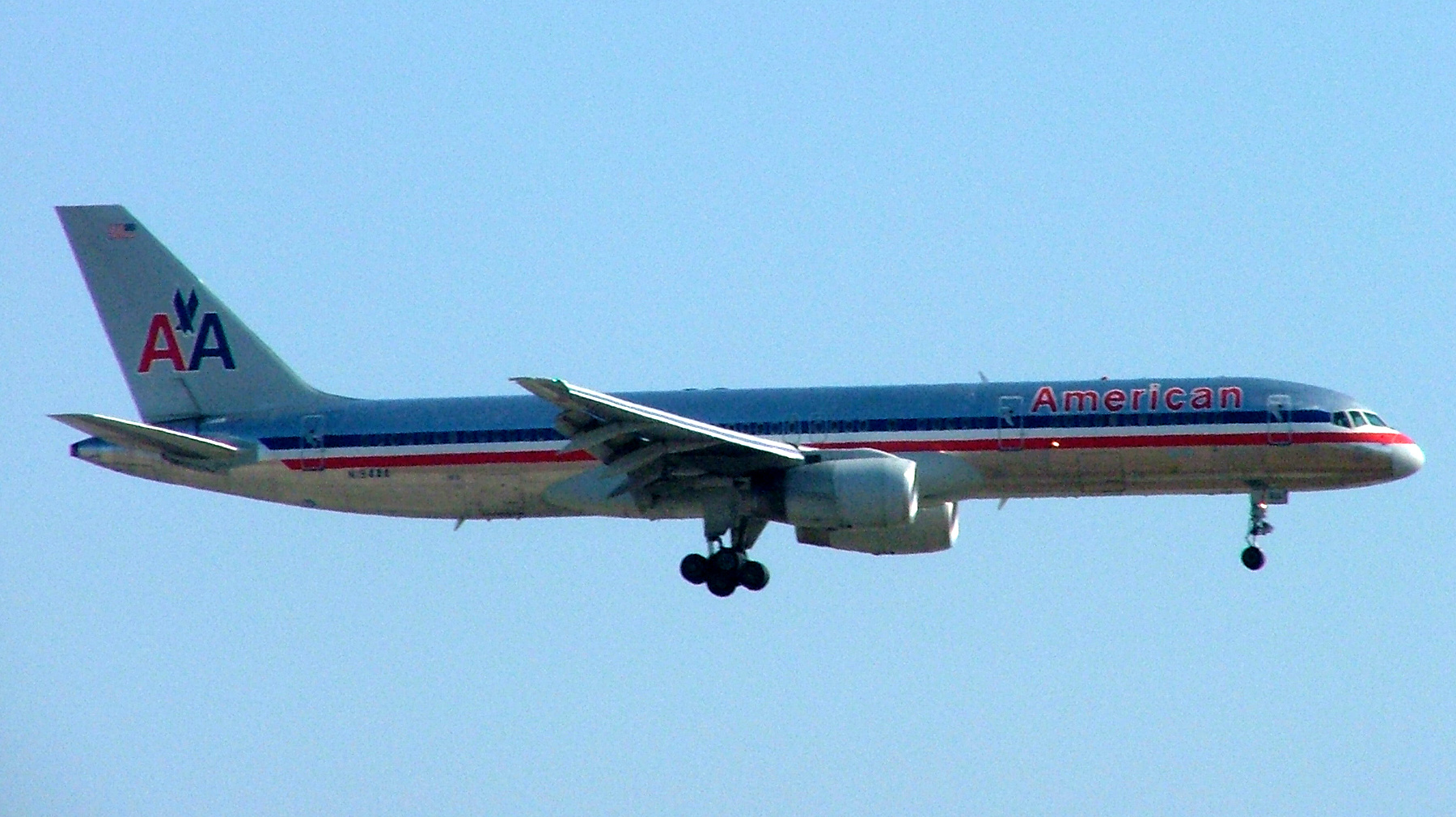 American Airlines Boeing 757